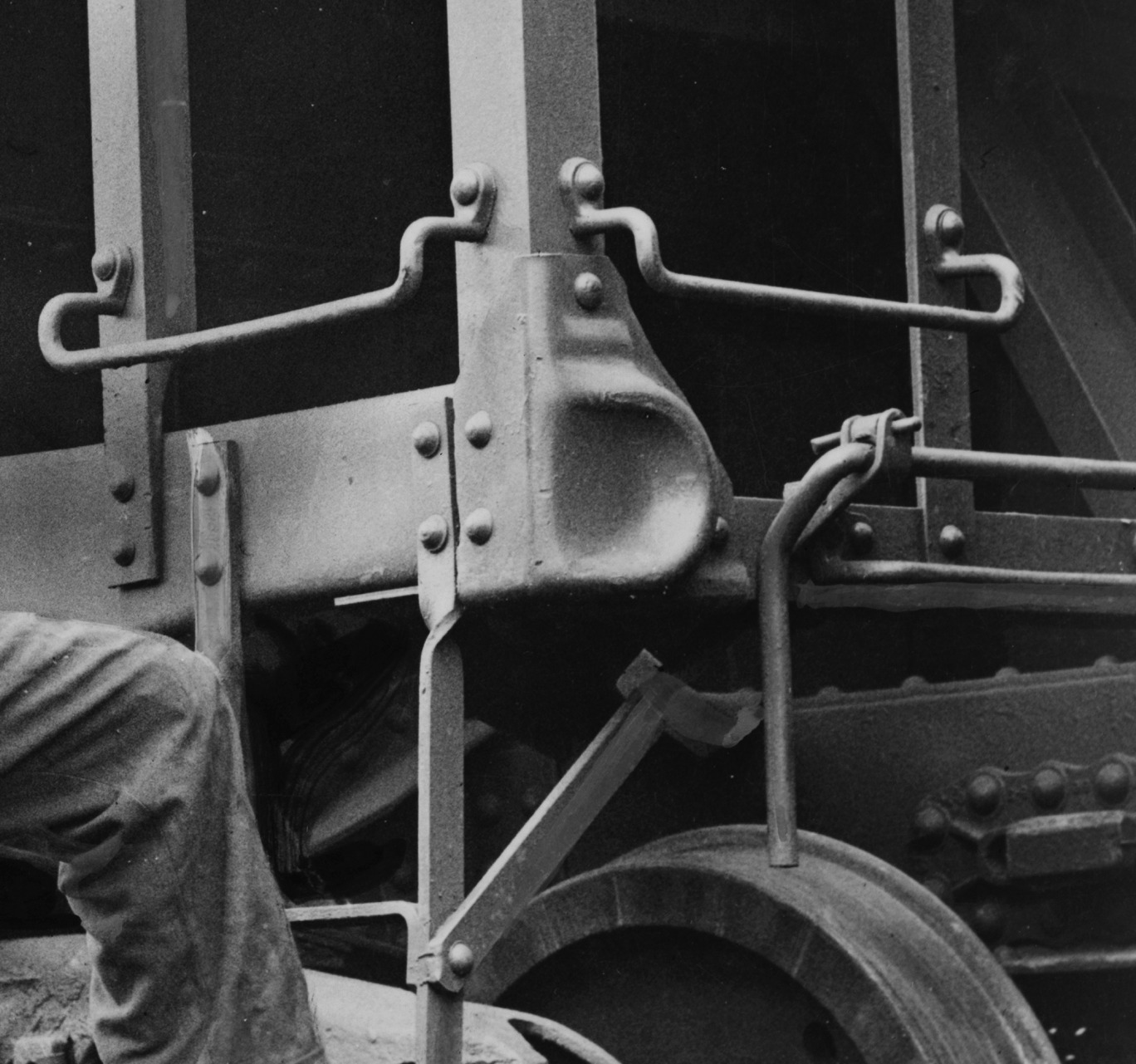 A hobo climbs on a footstep of hopper railroad car.